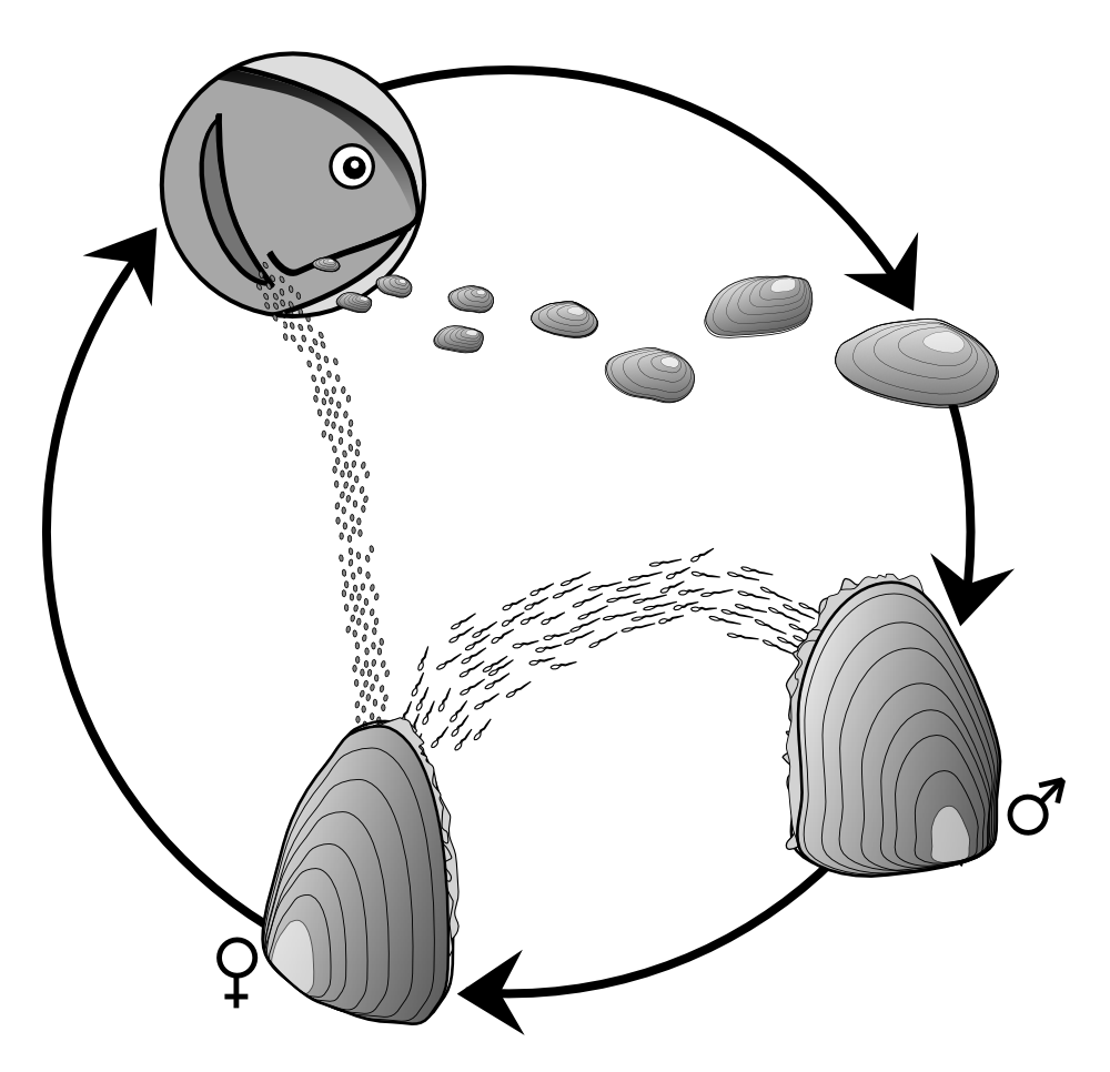 Reproductive circle of the Freshwater Pearl Mussle